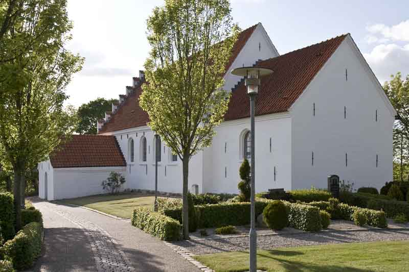 Understed church, danish church situated eight kilometres south of Frederikshavn